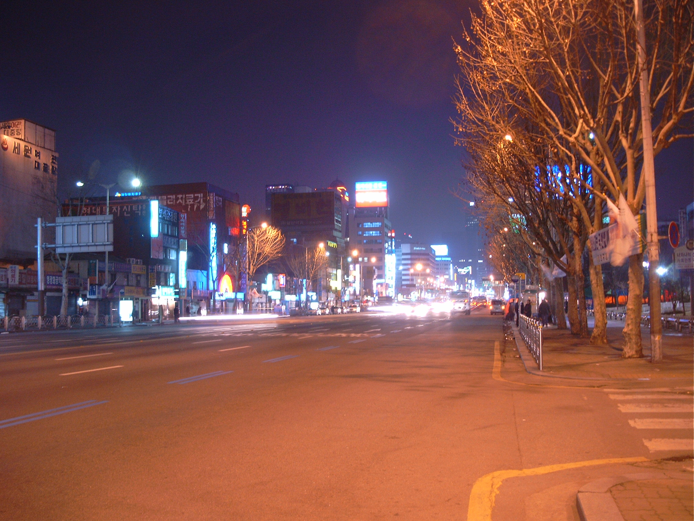 One of the main streets in Seoul, Saturday night.